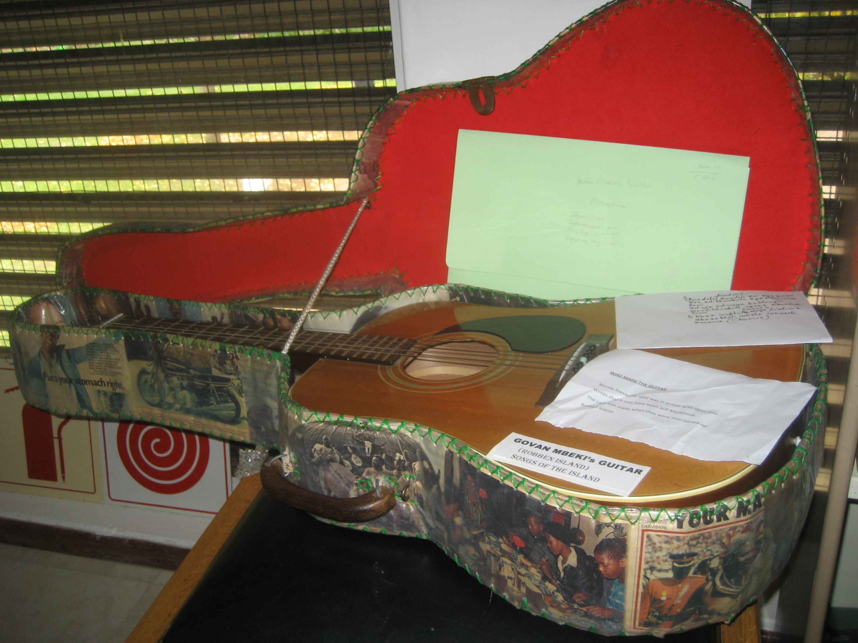 Guitar of Govan Mbeki. Liberation movement archives, University of Fort Hare